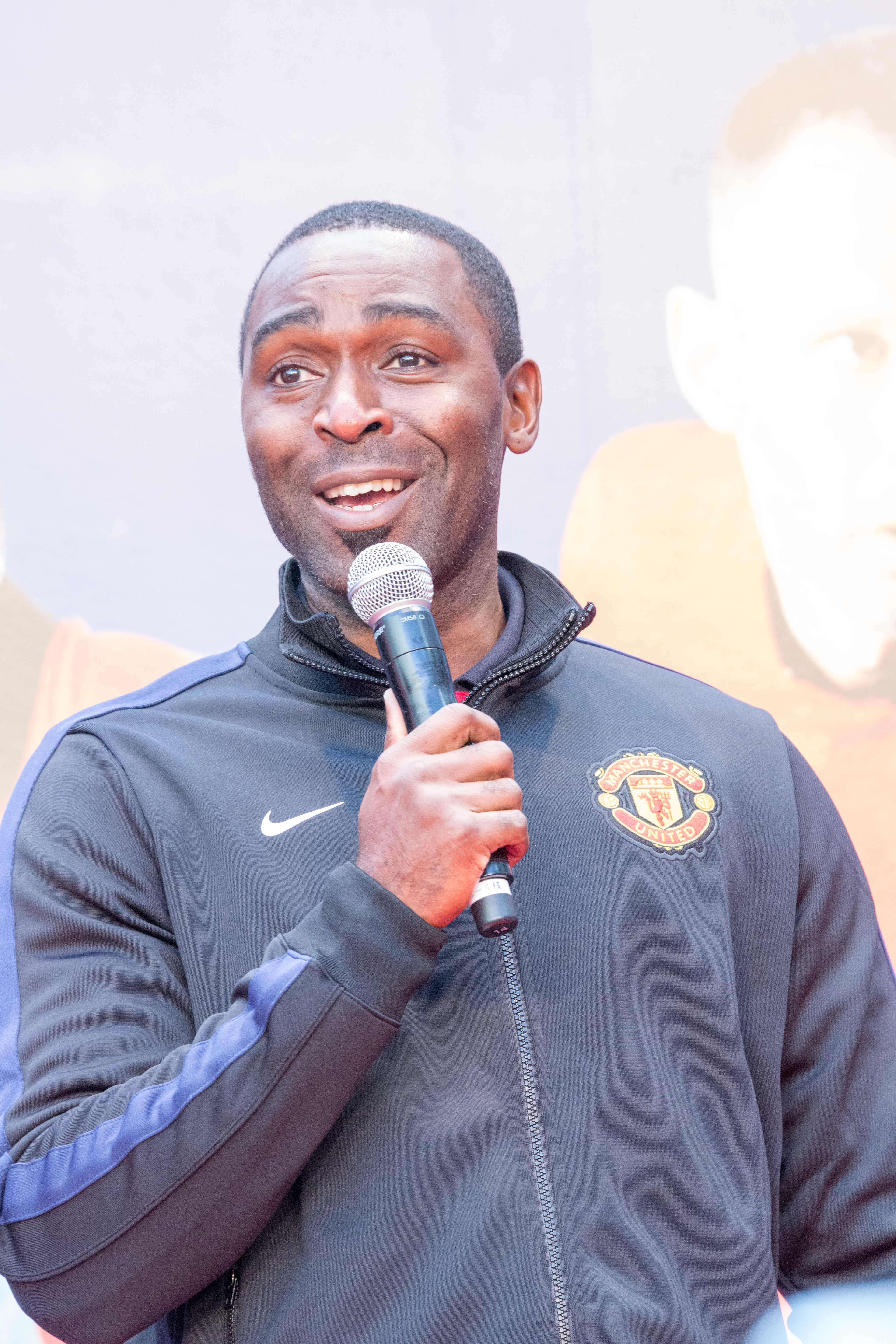 AEROFLOT ManchesterUnited TrophyTour